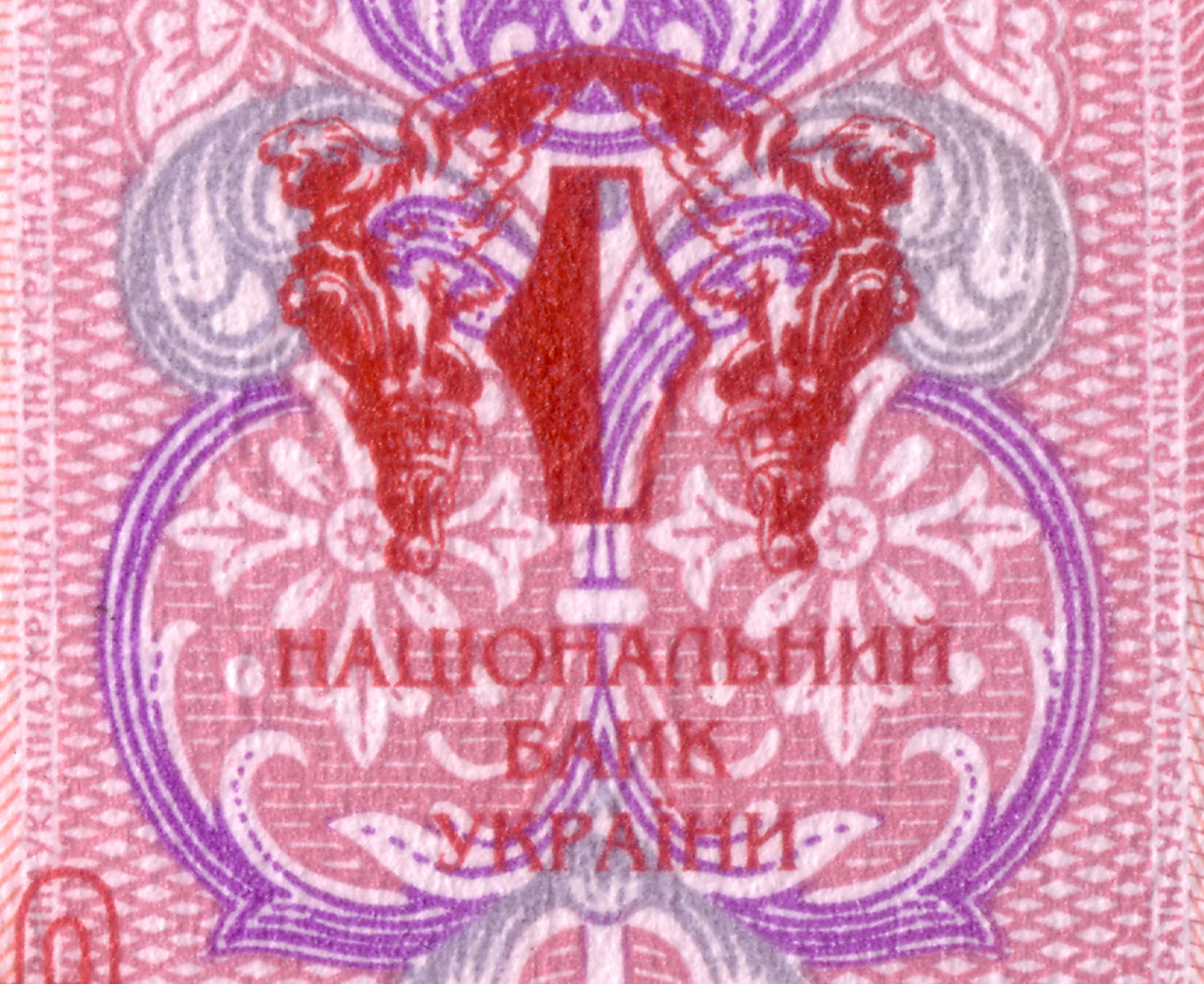 Detail from the 2006 10-hryvna note, NBU Emblem 10 Hryven.